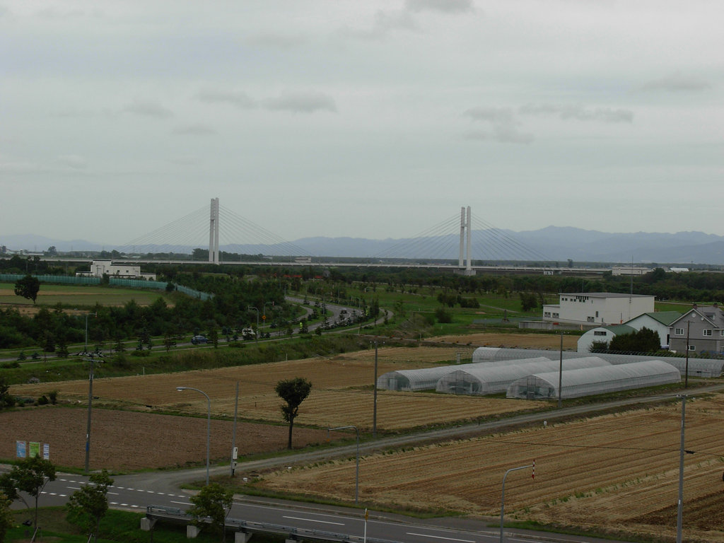 The Tappu Bridge (Tappu-ohashi) over the Ishikari River, seen from Shinshinotsu spa